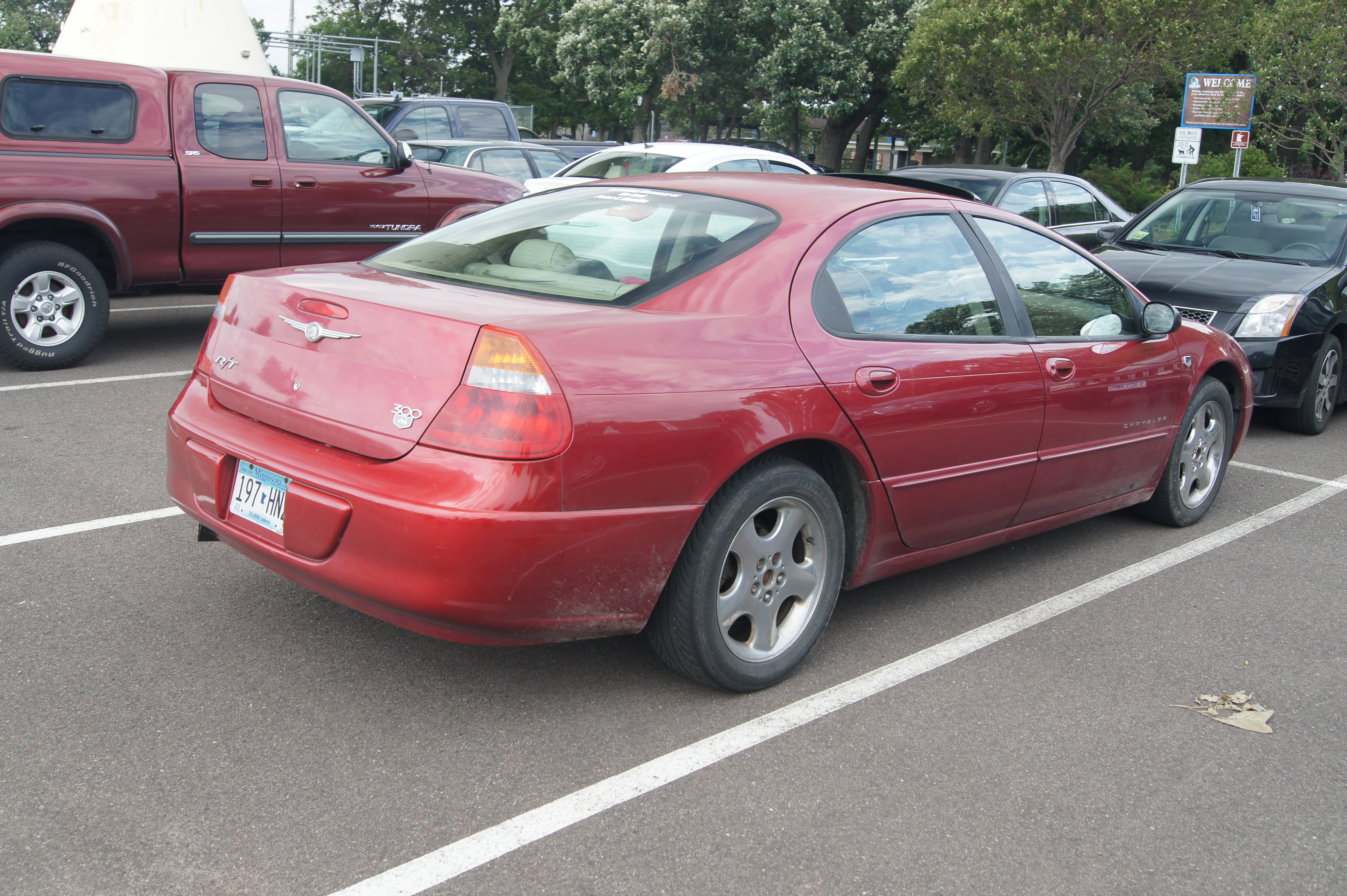 47th Annual Twin Cities Collectors Car Show & Swap Meet August 2014 Aquatore Park Blaine, Minnesota More car pictures separated by make by clicking on this Flickr link